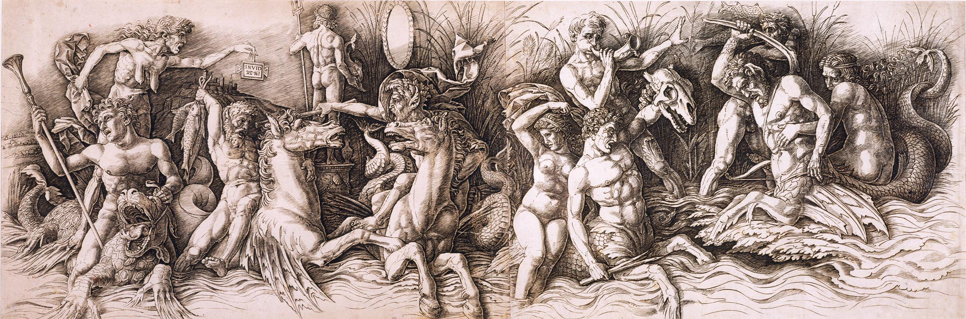 Battle of the sea gods (left and right part)